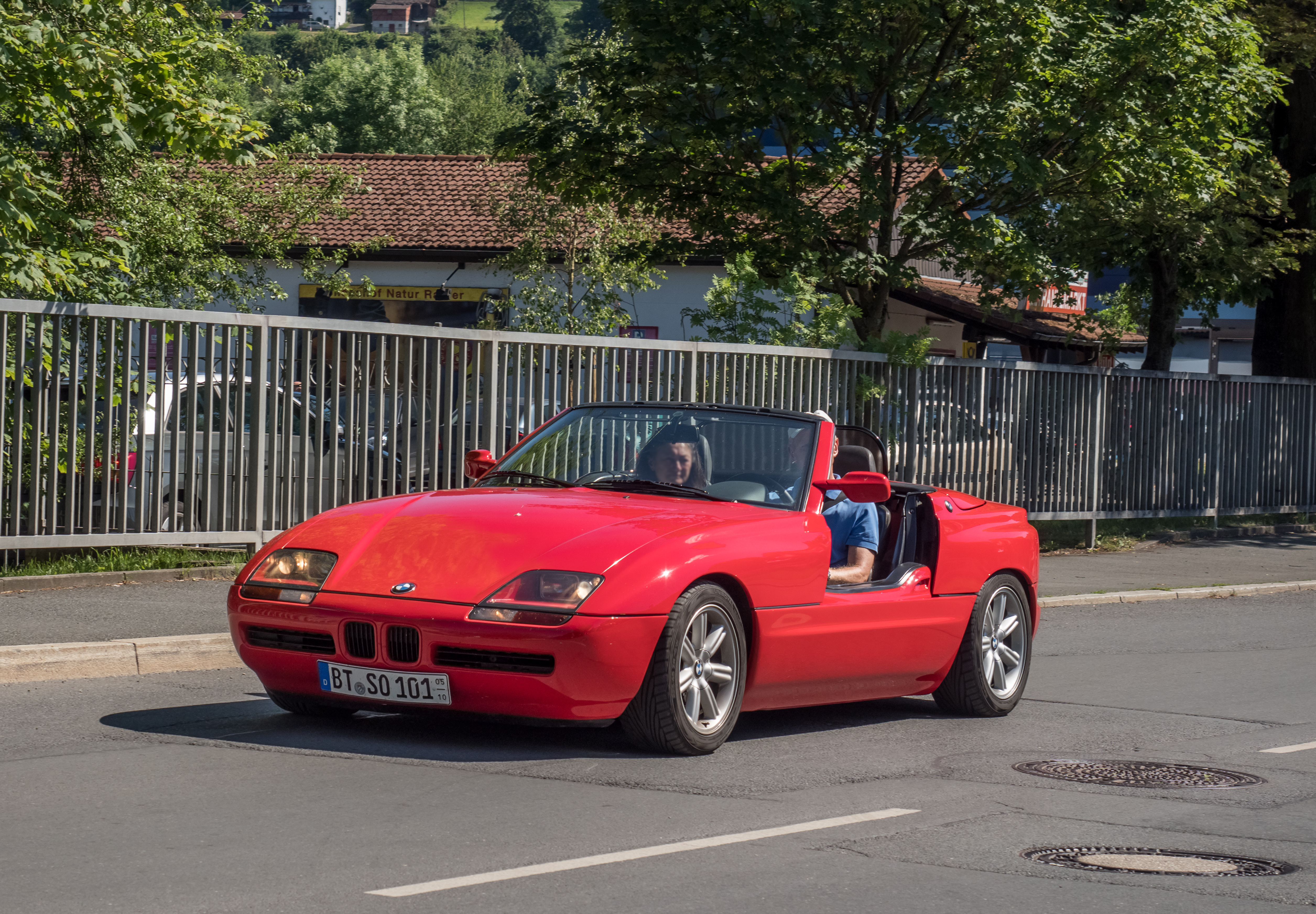 BMW Z1 at the oldtimer meeting in Kulmbach